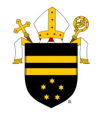 Coat of arms of Plzeň Diocese, Czech Republic